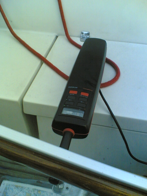 A Raymarine ST1000 detachable autopilot on a small sailboat. One end of the device has a peg that fits a hole in the seat, while the other end has a movable bar that attaches to the tiller. By extending or retracting the bar, the device can steer the boat to maintain a set compass heading. A GPS attachment is optional.